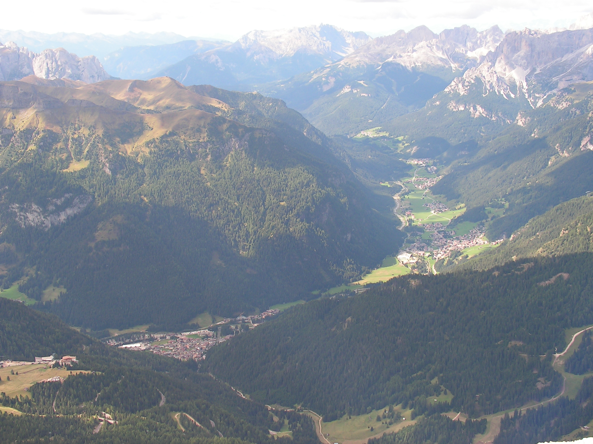 Fassa Valley seen from the Sass Pordoi. The First village on the left is Canazei.